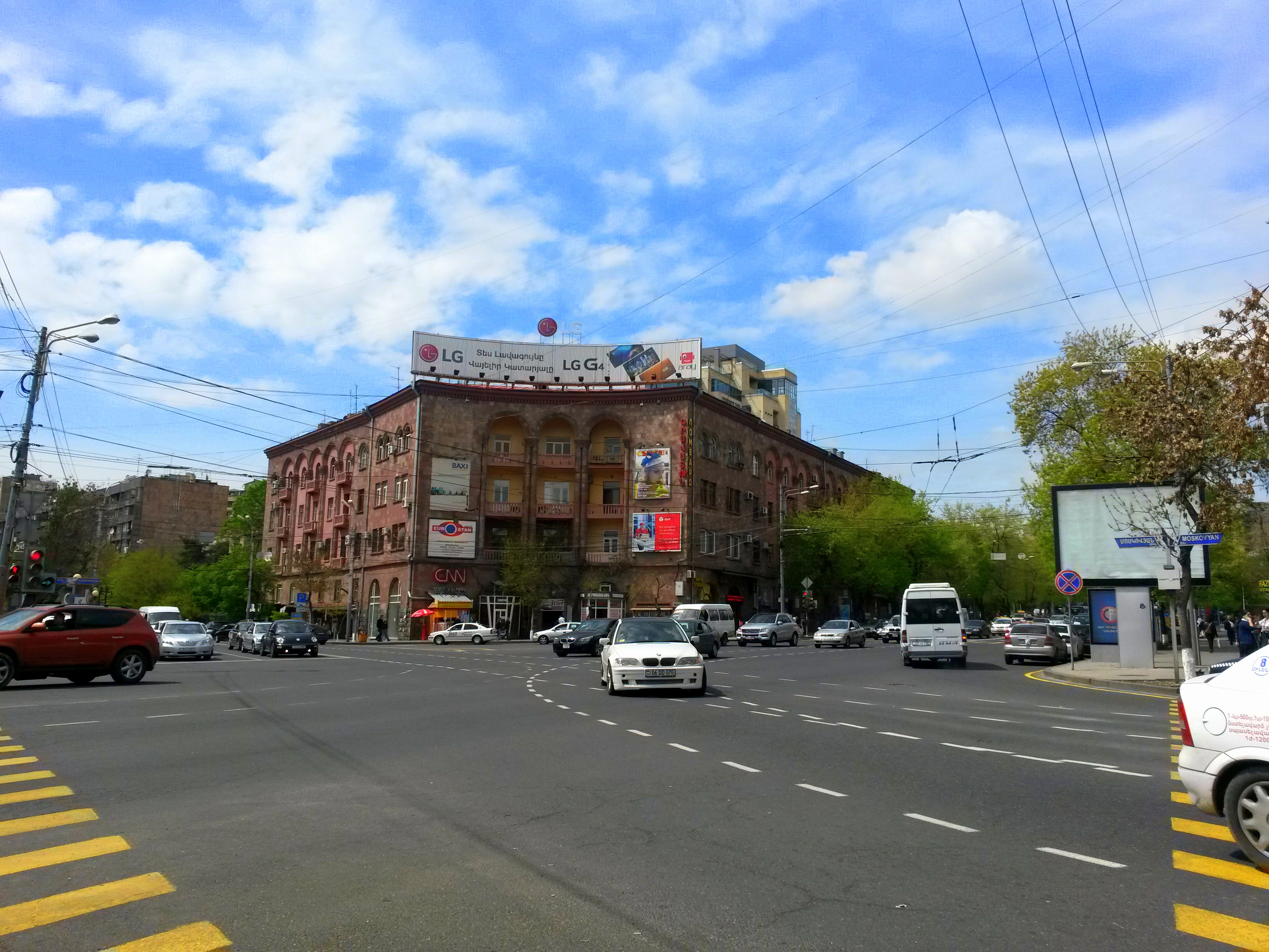 Baghramyan-Moskovyan crossroad, Yerevan